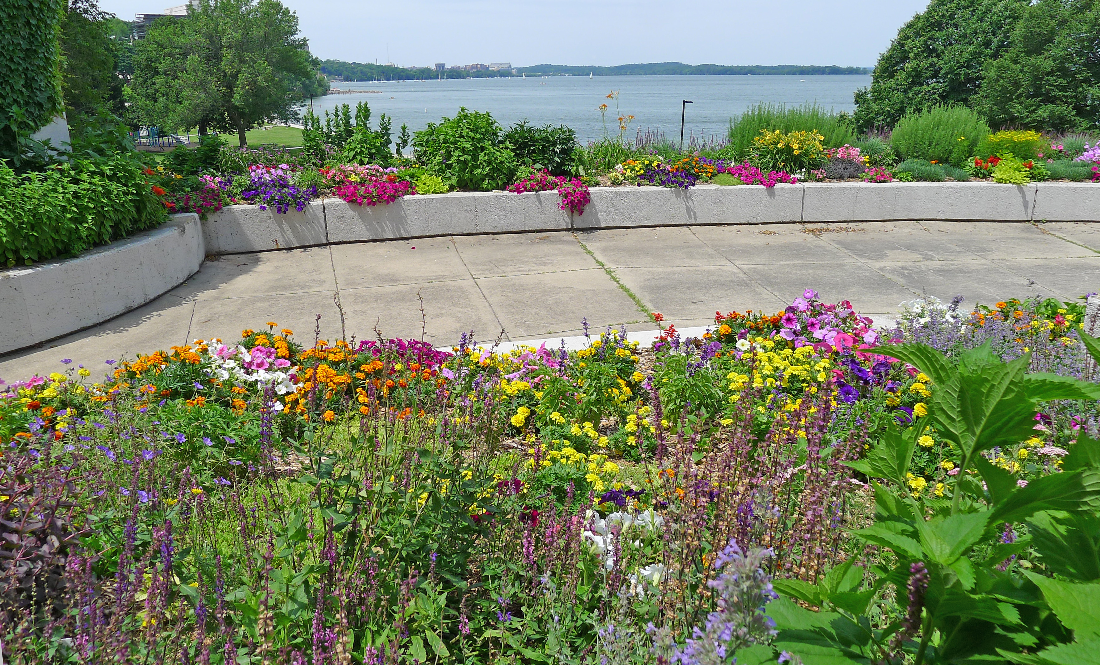 The James Madison Park shelter rooftop garden is a project of neighborhood volunteers.